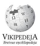 Wikipedia logo 2.0